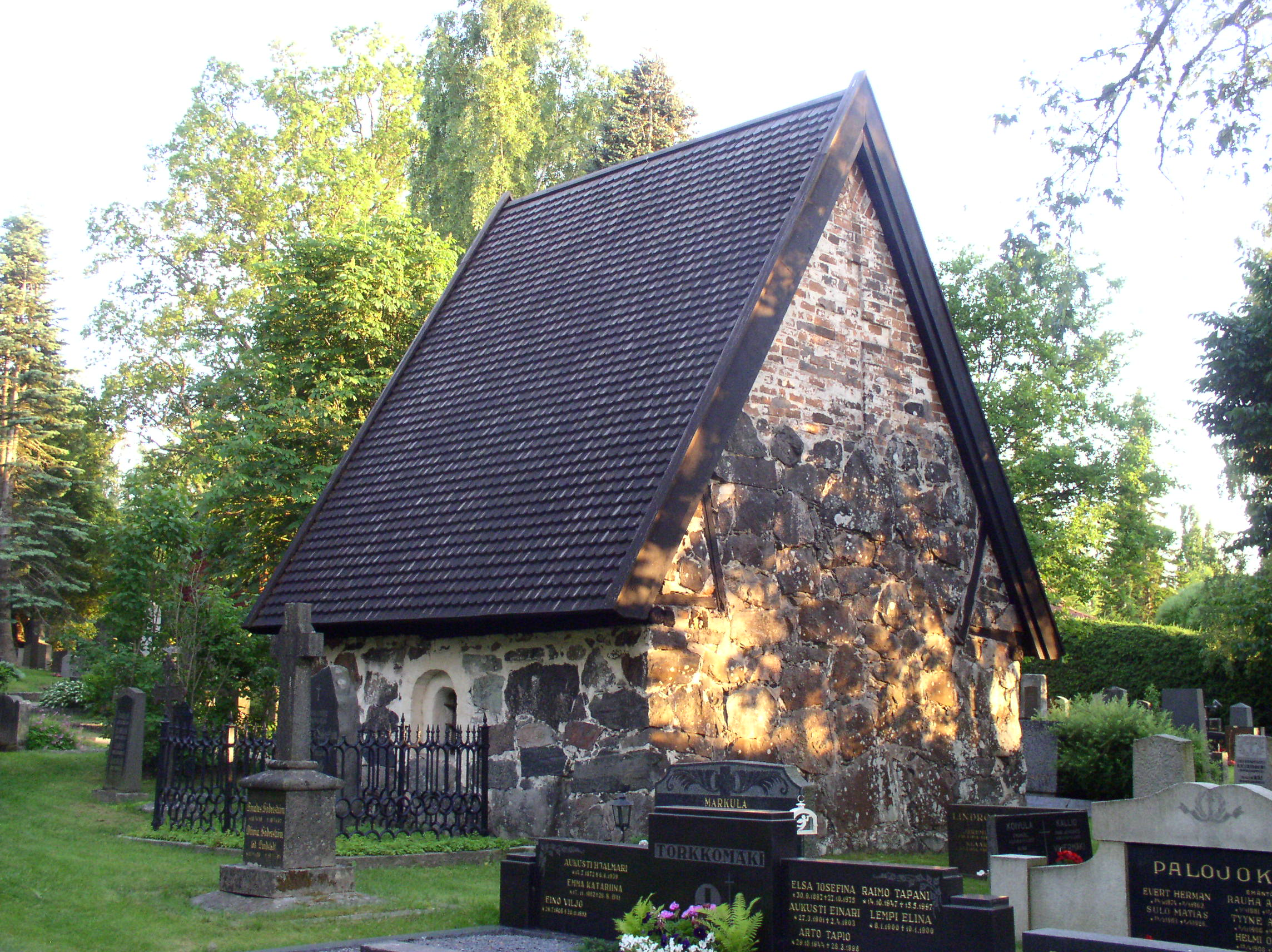 Somero medieval stone sacristy in Somero, Finland. The sacristy was part of a wooden church. It is supposed to be the first part of a planned stone church. The plan was never finished.